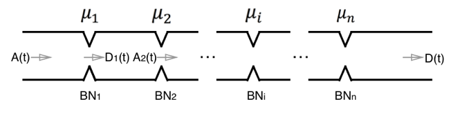 A simplified layout of tandem queues